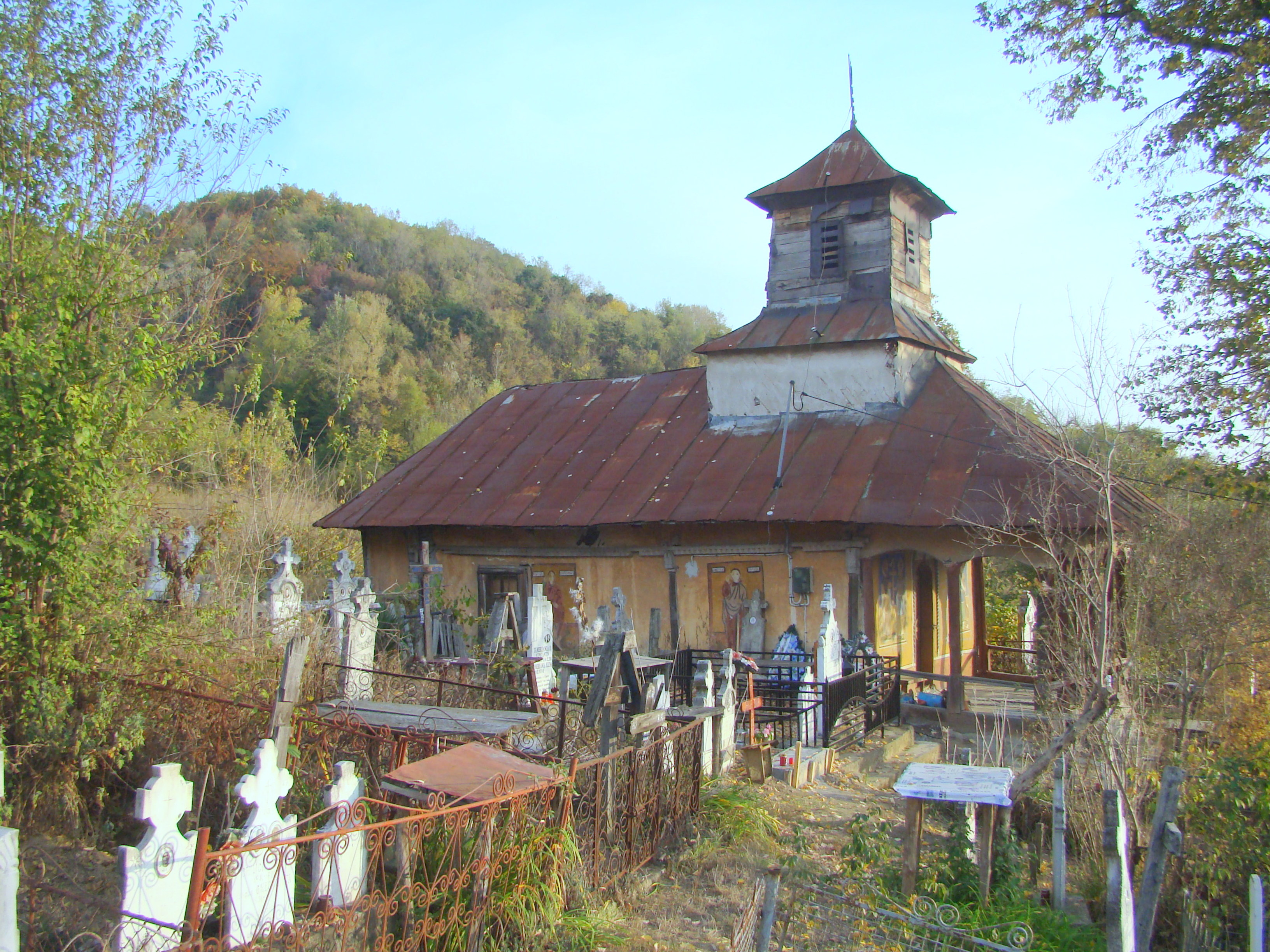 Wooden church in Plopșoru, Gorj county, Romania